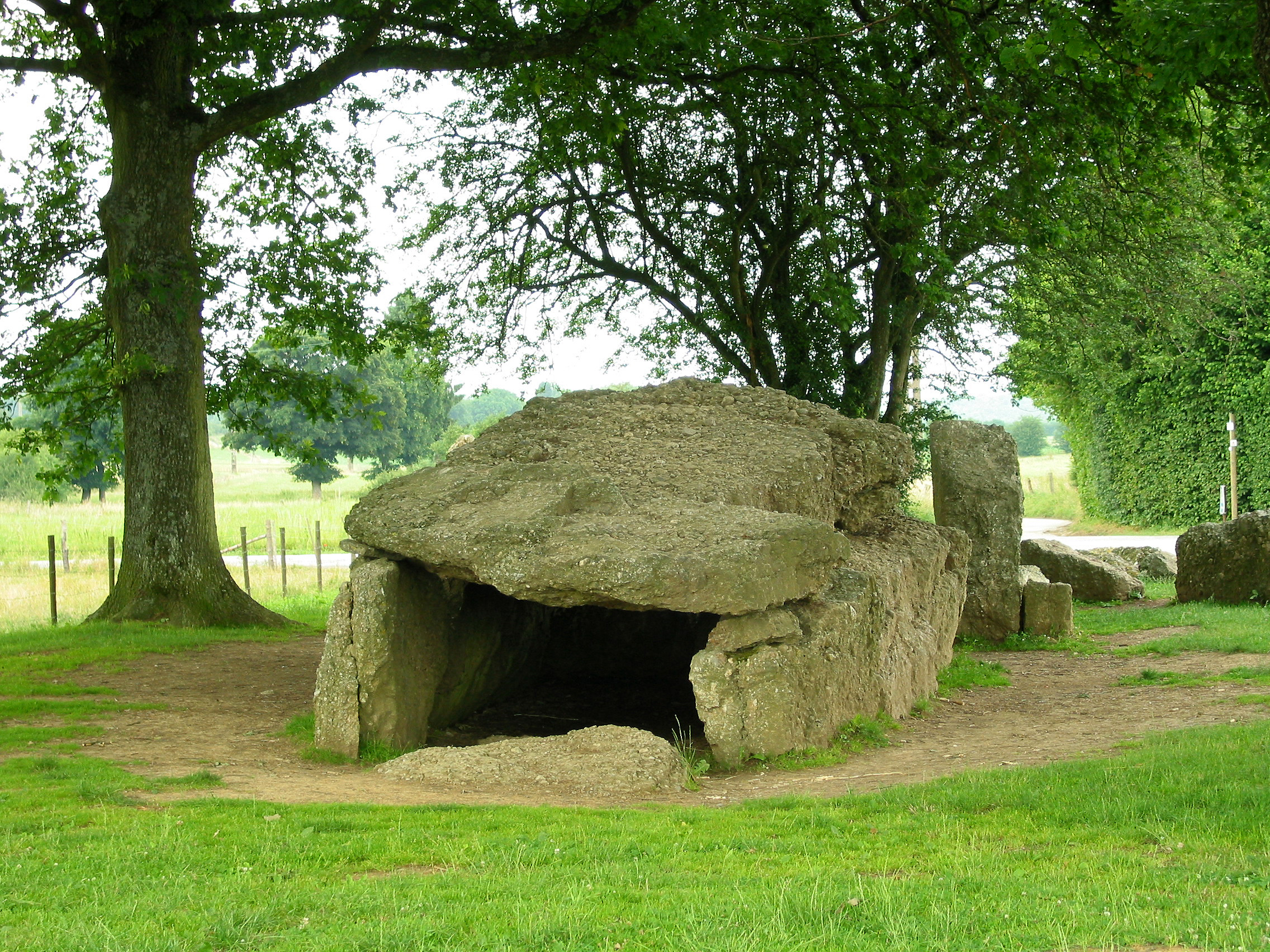 Wéris, the dolmen named dolmen Nord or Wéris I.